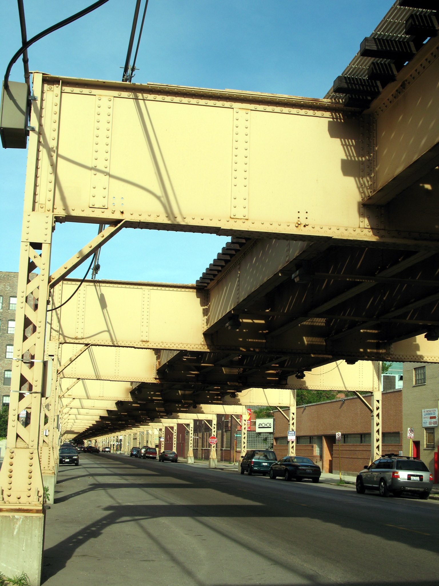 Elevated Line on Lake Street (near Morgan Street, looking east), Chicago, Illinois.